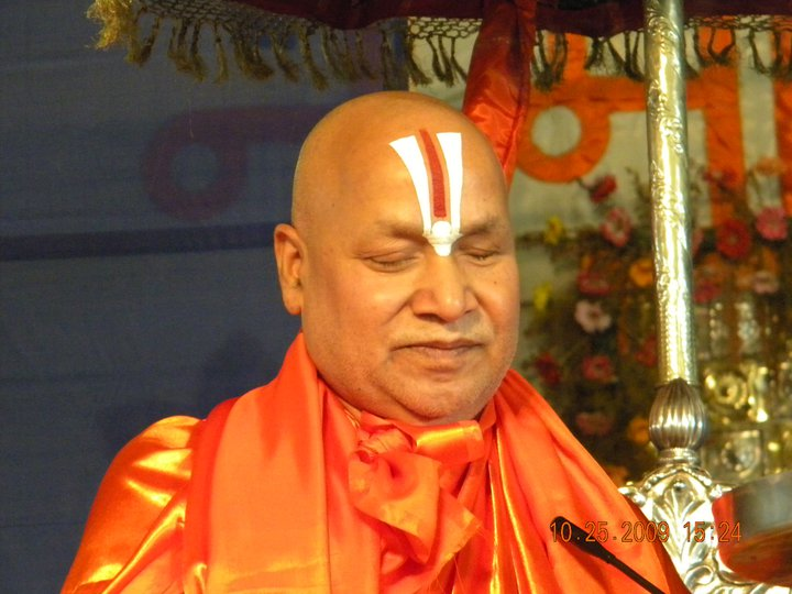 Jagadguru Rambhadracharya delivering a sermon in Moradabad, Uttar Pradesh, India.